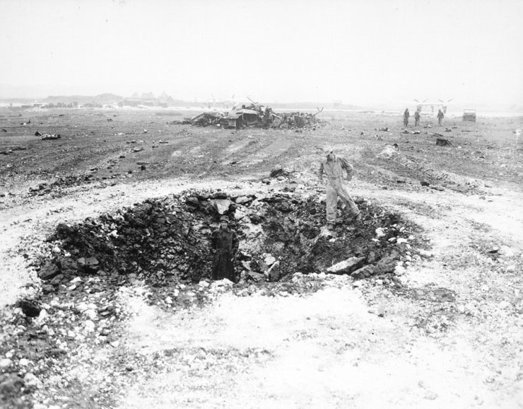 Japanese planes drop bombs around the Marine Yontan strip at Okinawa